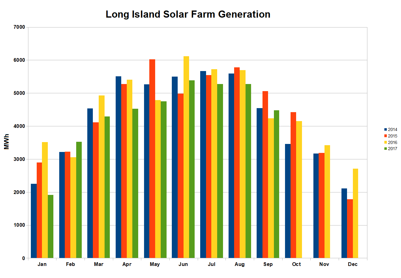 Long Island Solar Farm monthly generation. Data source:[1]